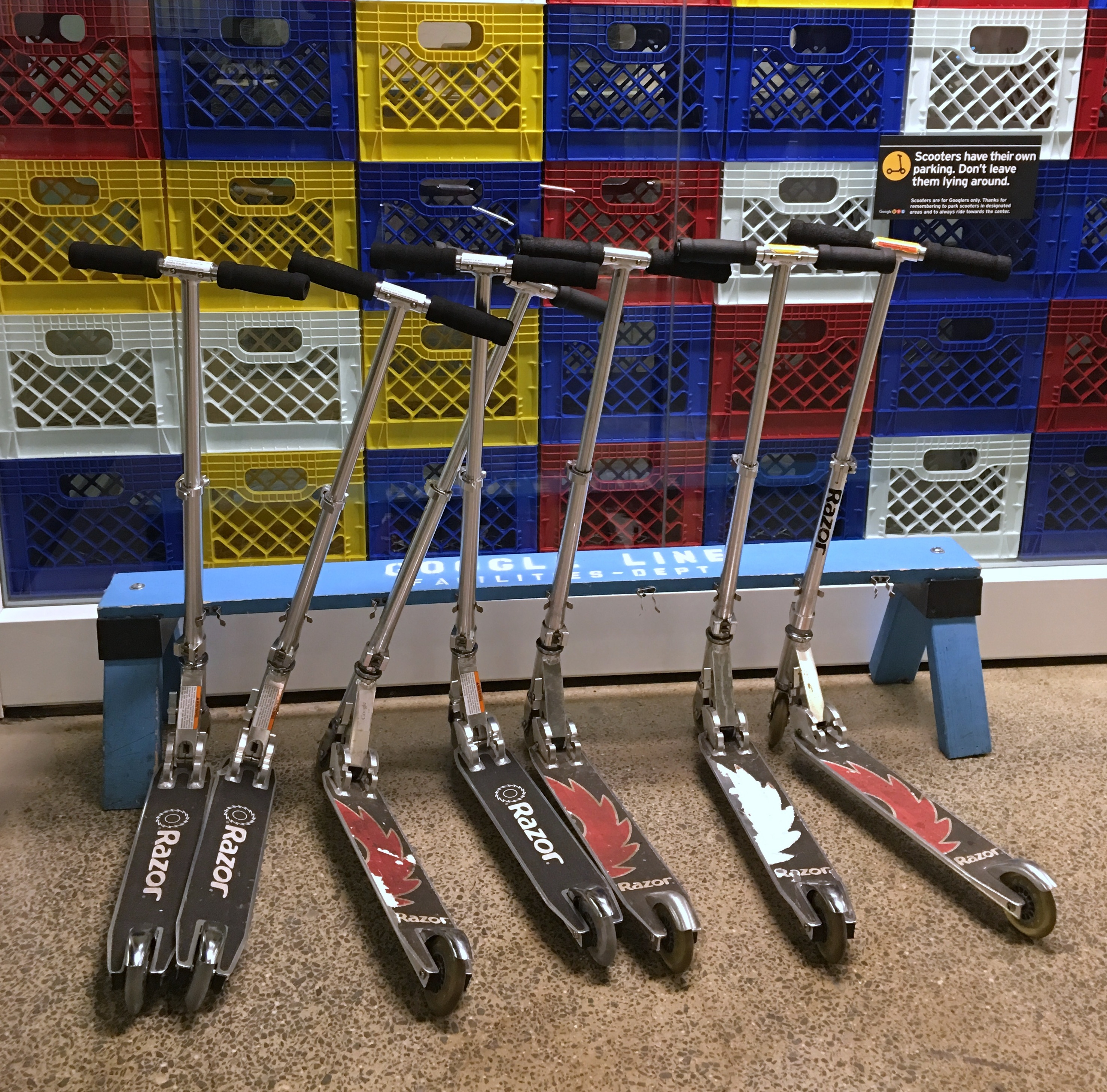 Scooter station at Google Offices. Site: Google Office